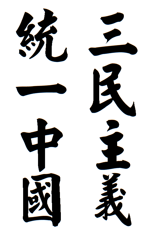 三民主義統一中國